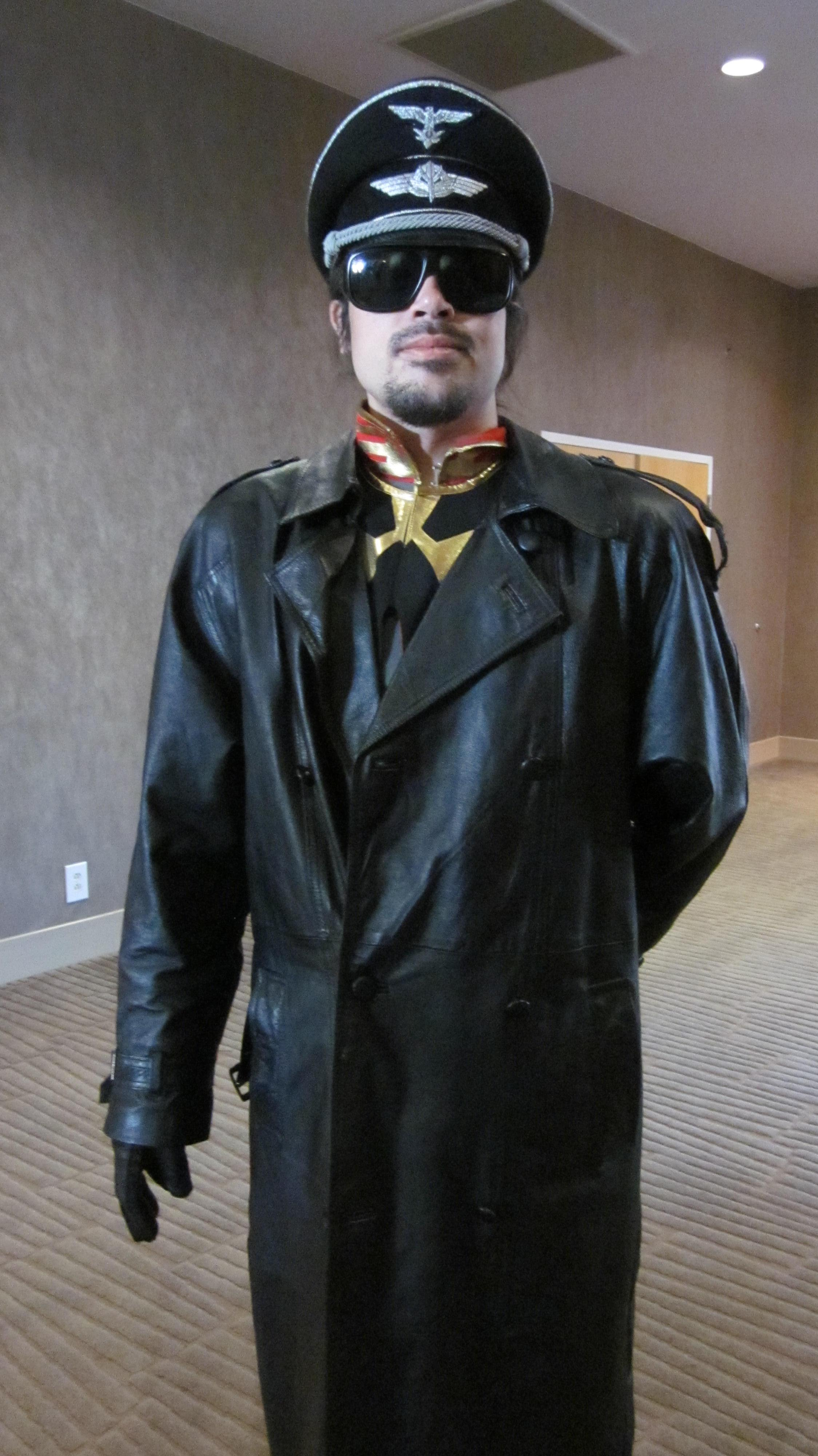 A cosplayer portraying a Zeon officer from Gundam at FanimeCon 2010 in San Jose, California.